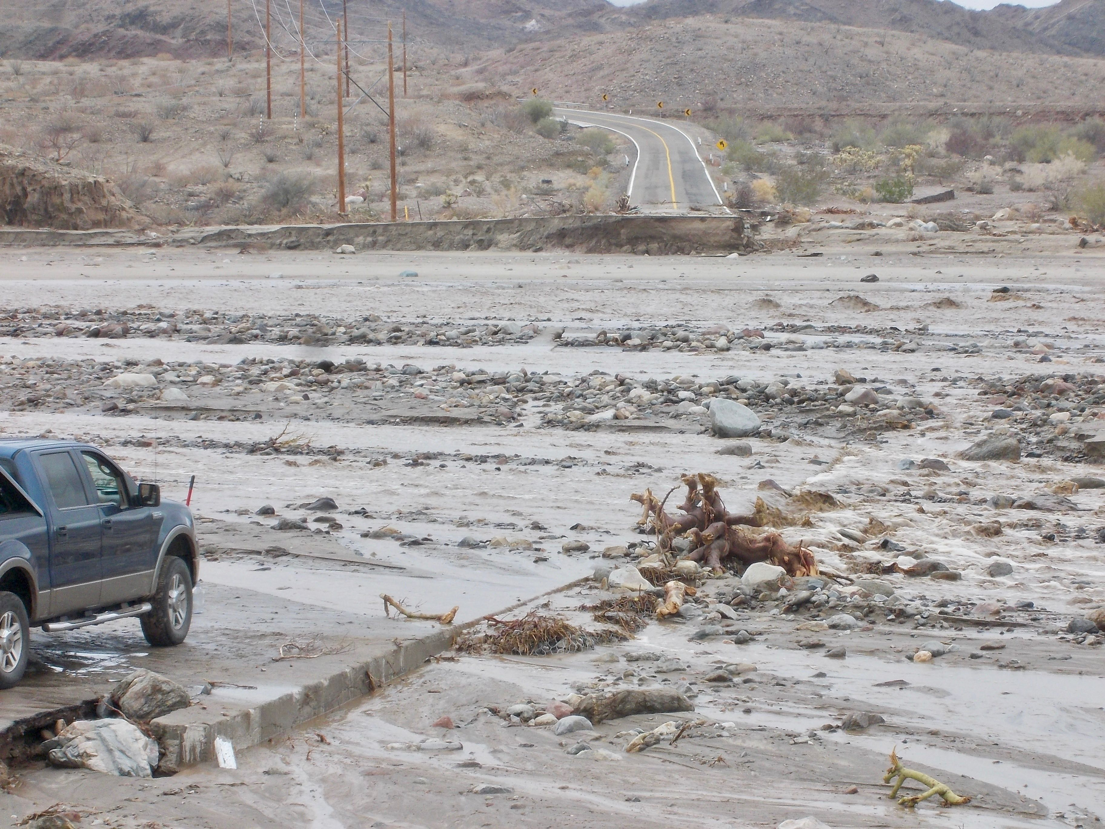 Damage to Federal Highway 12 leading out of Bahía de los Ángeles after Hurricane Odile. Photo taken approximately 12 hours after the storm had passed. It was another 12 hours until the waters had subsided enough for vehicles to navigate the river bed and cross.